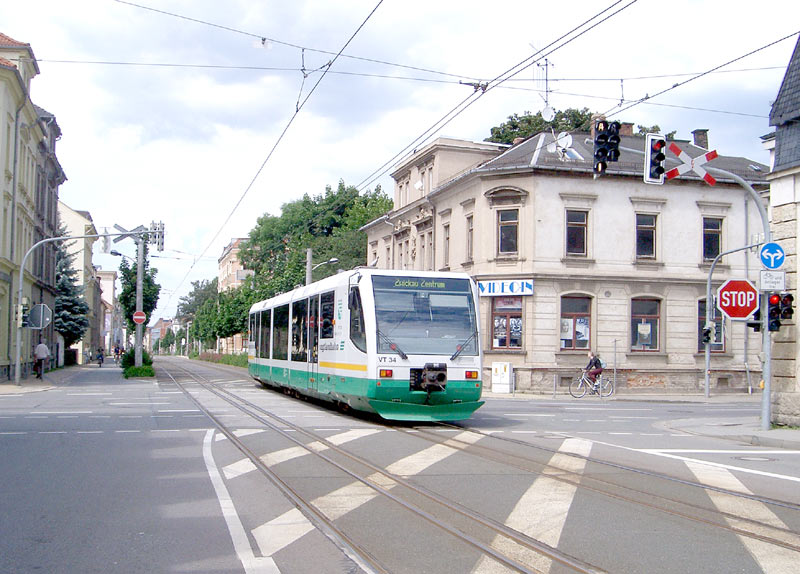 The Zwickau Model sees lightweight diesel TrainTrams (also known as RegioSprinters) being extended from the mainline railway through urban streets just like regular trams (streetcars) - albeit although they are used within the street environment and even (for a short distance) over part of a pedestrianised zone they are always segregated from the normal road traffic. These TrainTrams are operated by the VogtlandBahn railway. Because the trams are metre gauge and the trains are standard gauge so where the trams and trains share tracks they use a three rail system featuring one shared rail and one exclusive rail each. Photographed by SPSmiler in July 2005.